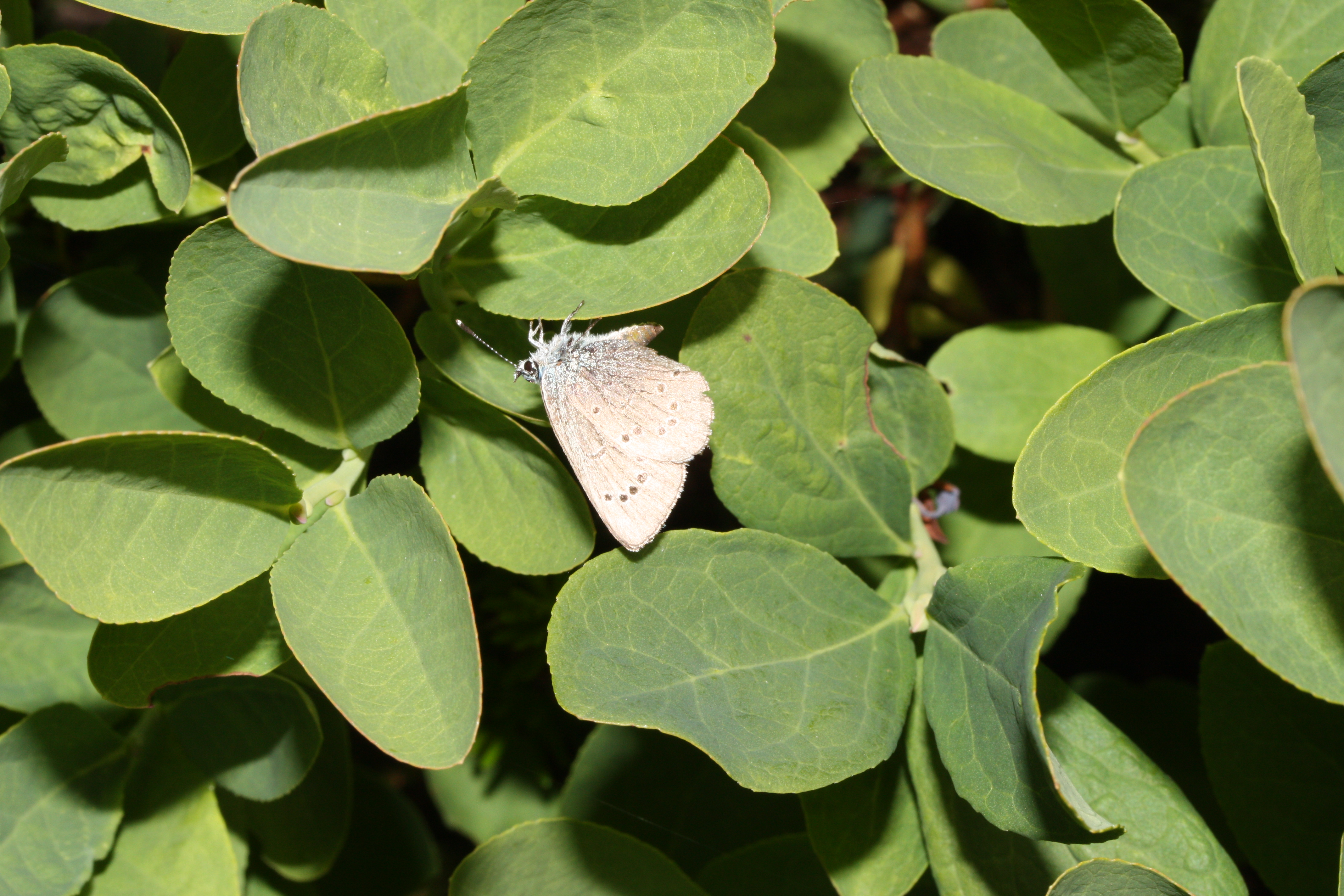 Silvery Blue female